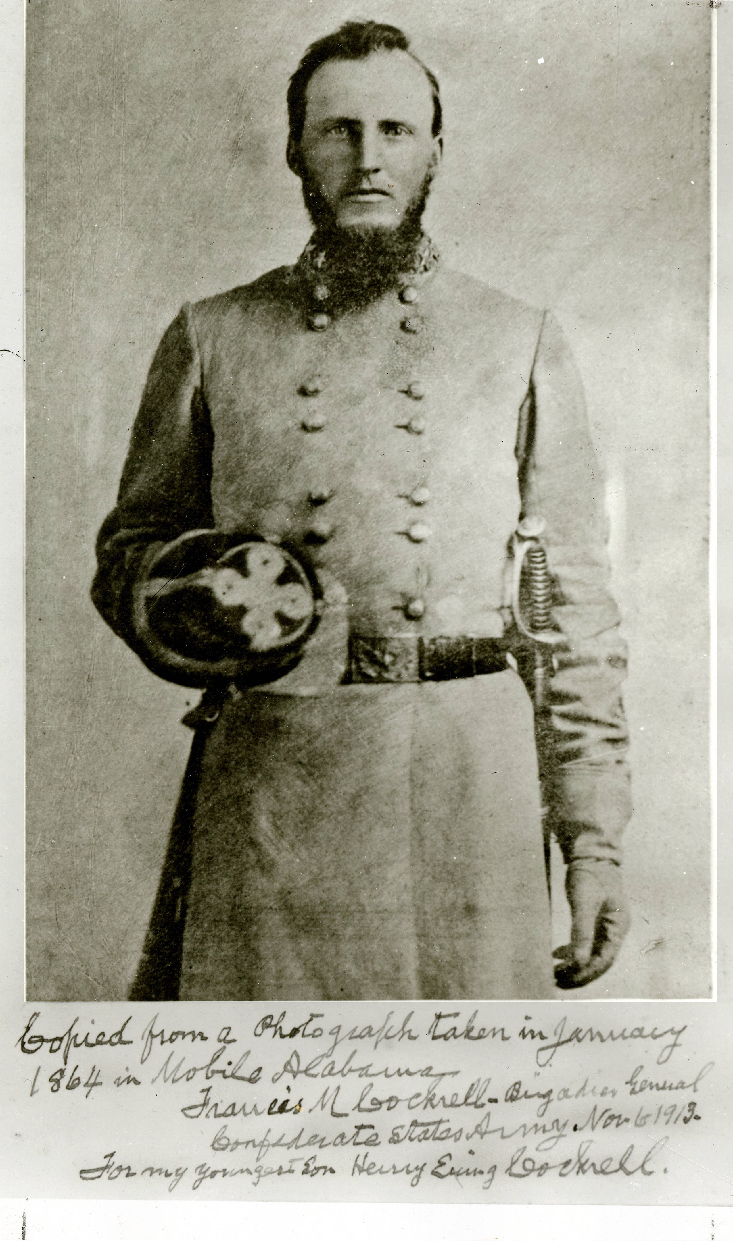 Brigadier General Francis Marion Cockrell, January 1864, Mobile, Alabama. The State Historical Society of Missouri